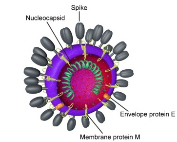 Diagram of coronavirus virion structure